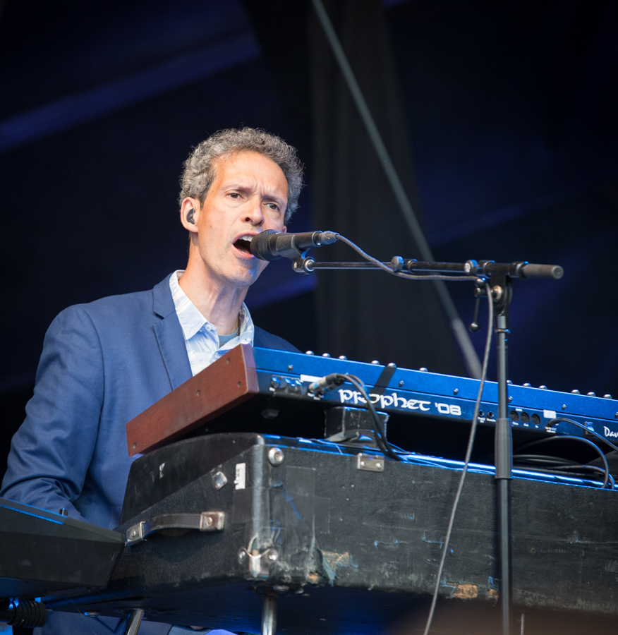 Mike Lindup with Level 42 at the stage of Kirketorget. The concert was part of Kongsberg Jazzfestival and took place on 06. July 2017. Lineup:Mark King (bass guitar)Mike Lindup (keyboard)Unidentified (guitar)Unidentified (drums)Unidentified (saxophone)Unidentified (trumpet)Unidentified (trombone)